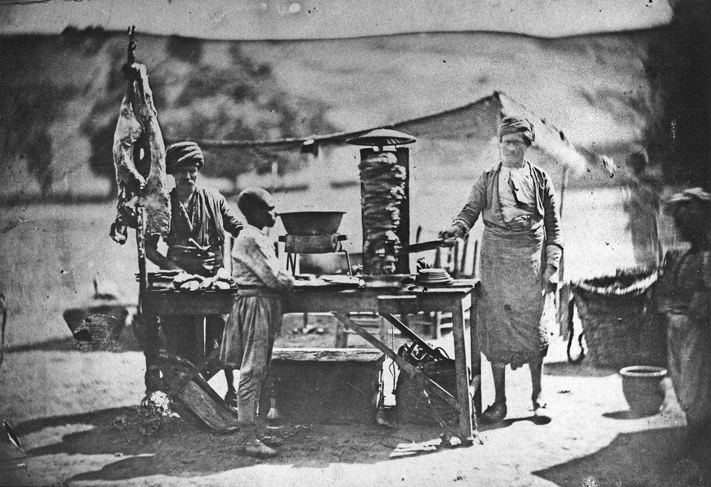 Taken by James Robertson in 1855, it is considered to be the first doner photo.